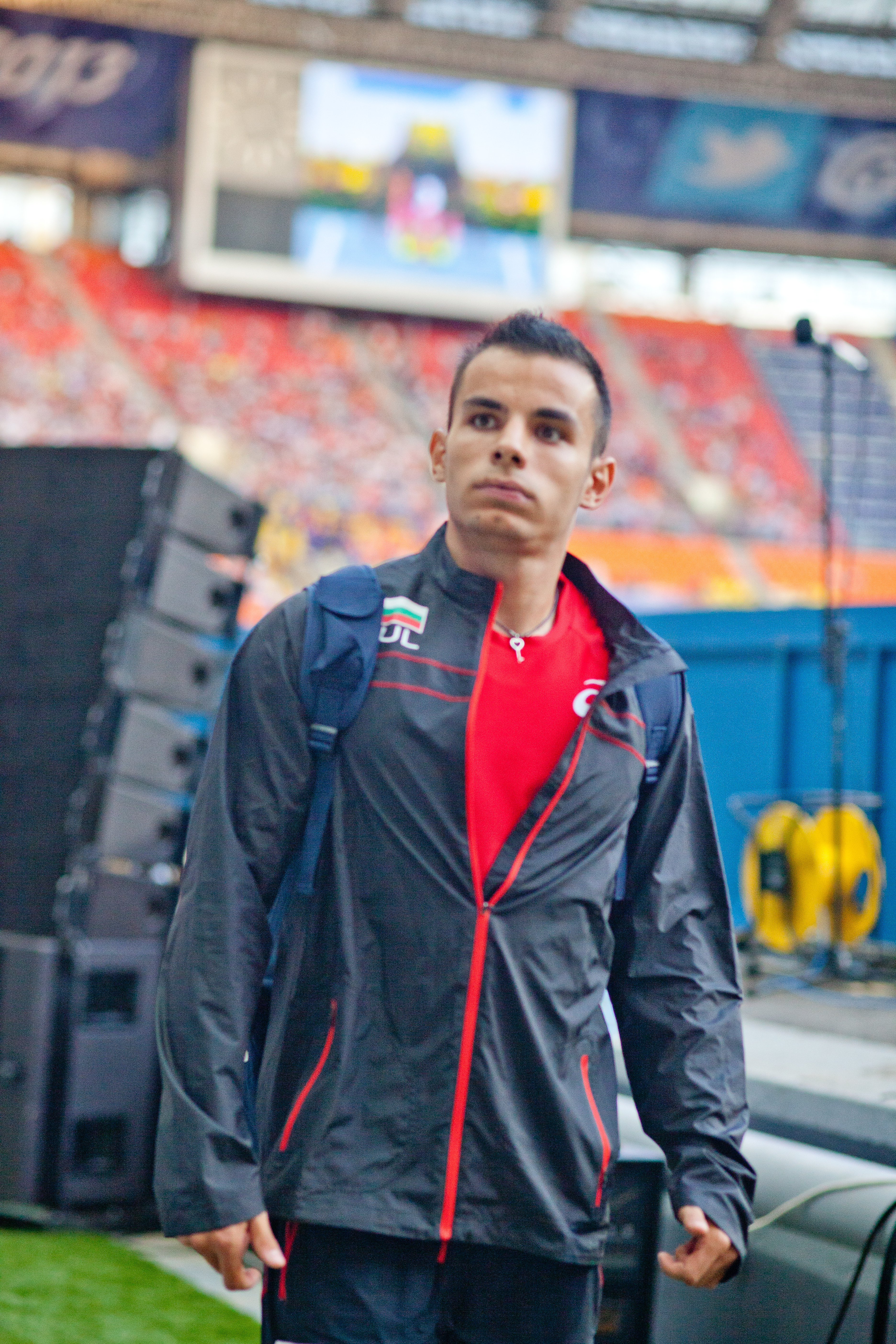 Denis Dimitrov during 2013 World Championships in Athletics in Moscow.